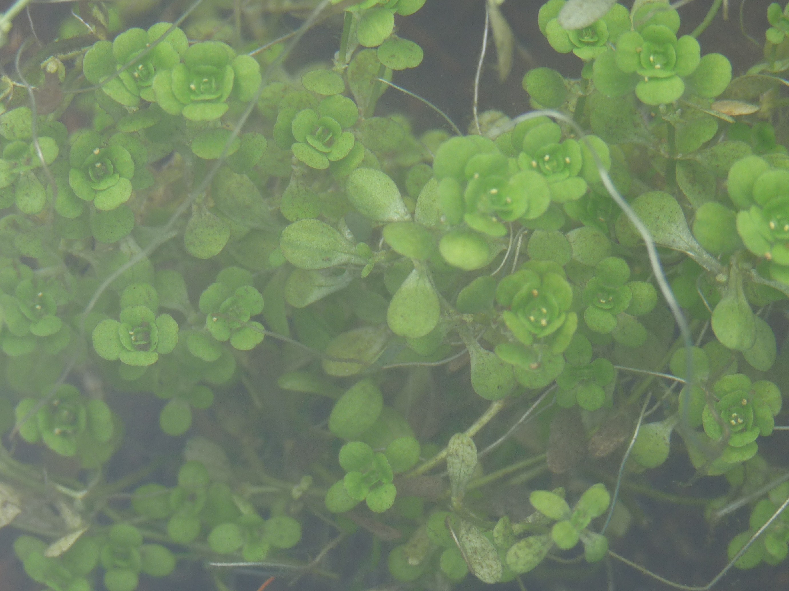 Callitriche palustris